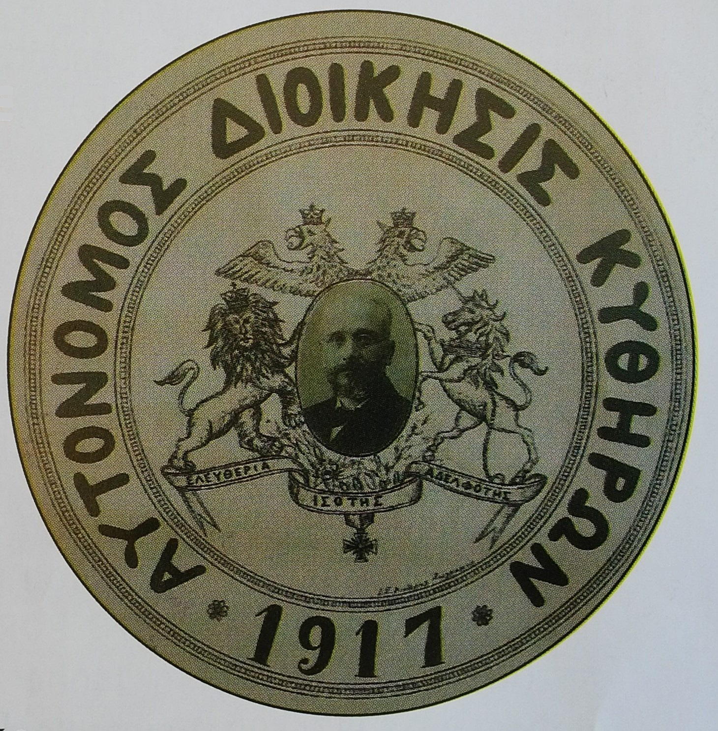 The seal of the Autonomous Administration of Kythera founded in 17 Feb 1917 and disbanded a few months later. At the centre is the image of Eleftherios Venizelos and below the motto of the French Revolution: Freedom, Equality, Brotherhood